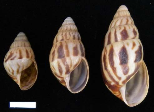 photo of three shells of Limicolaria flammea. Scale bar is 1 cm.